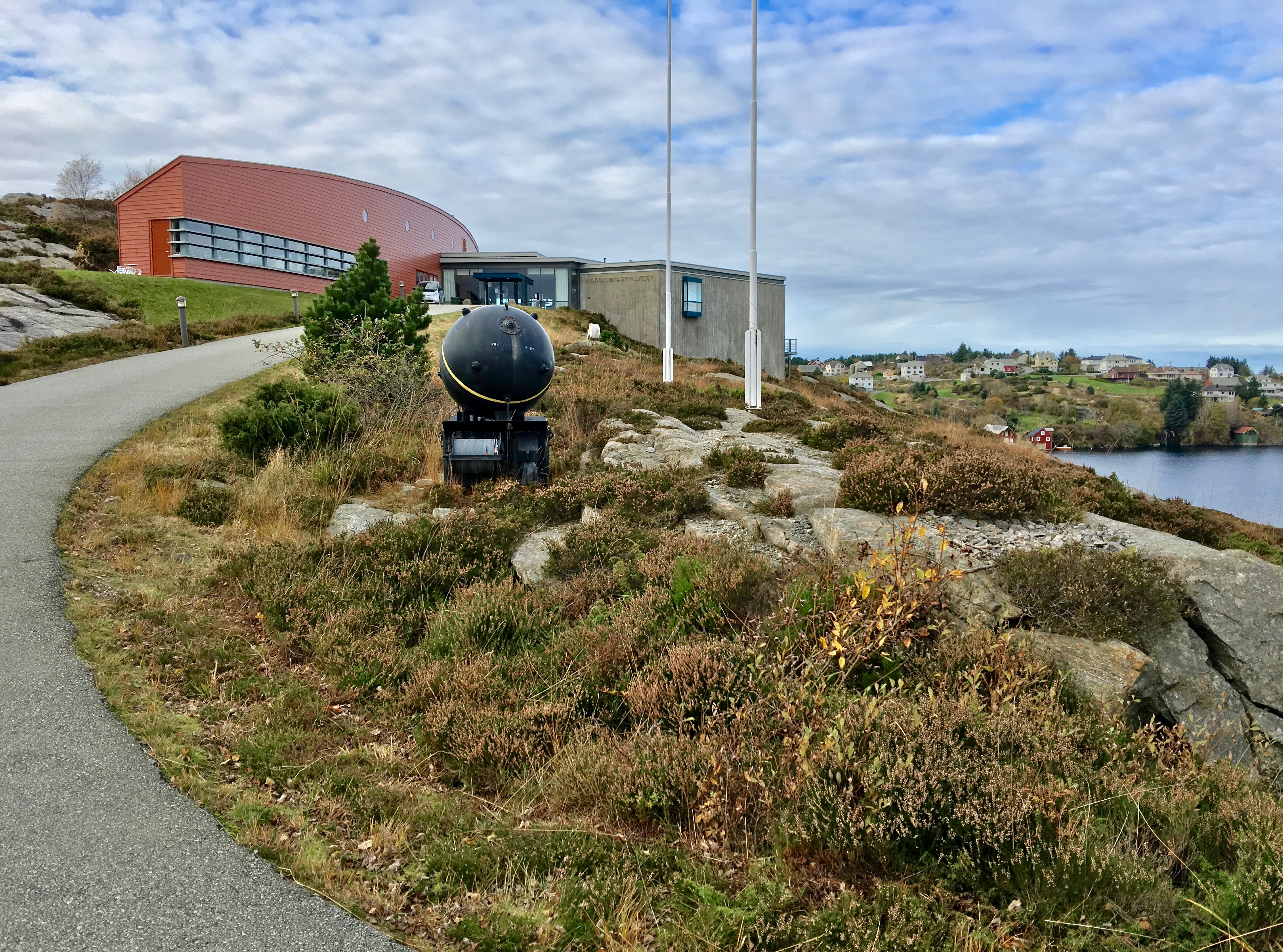 North Sea Traffic Exhibition, a World War II museum in Telavaag, Norway. Naval mine. (Nordsjøfartmuseet i Tælavåg i Sund kommune på Sotra i Hordaland fylke. Hornmine.)